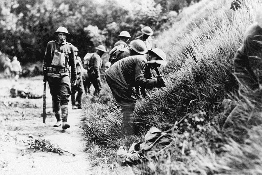 Troops of the 2nd Battalion, 16th Infantry Regiment, 1st Infantry Division (United States) digging in behind a railroad embankment just north of Chaudun, 18 July 1918, during the Battle of Siossons